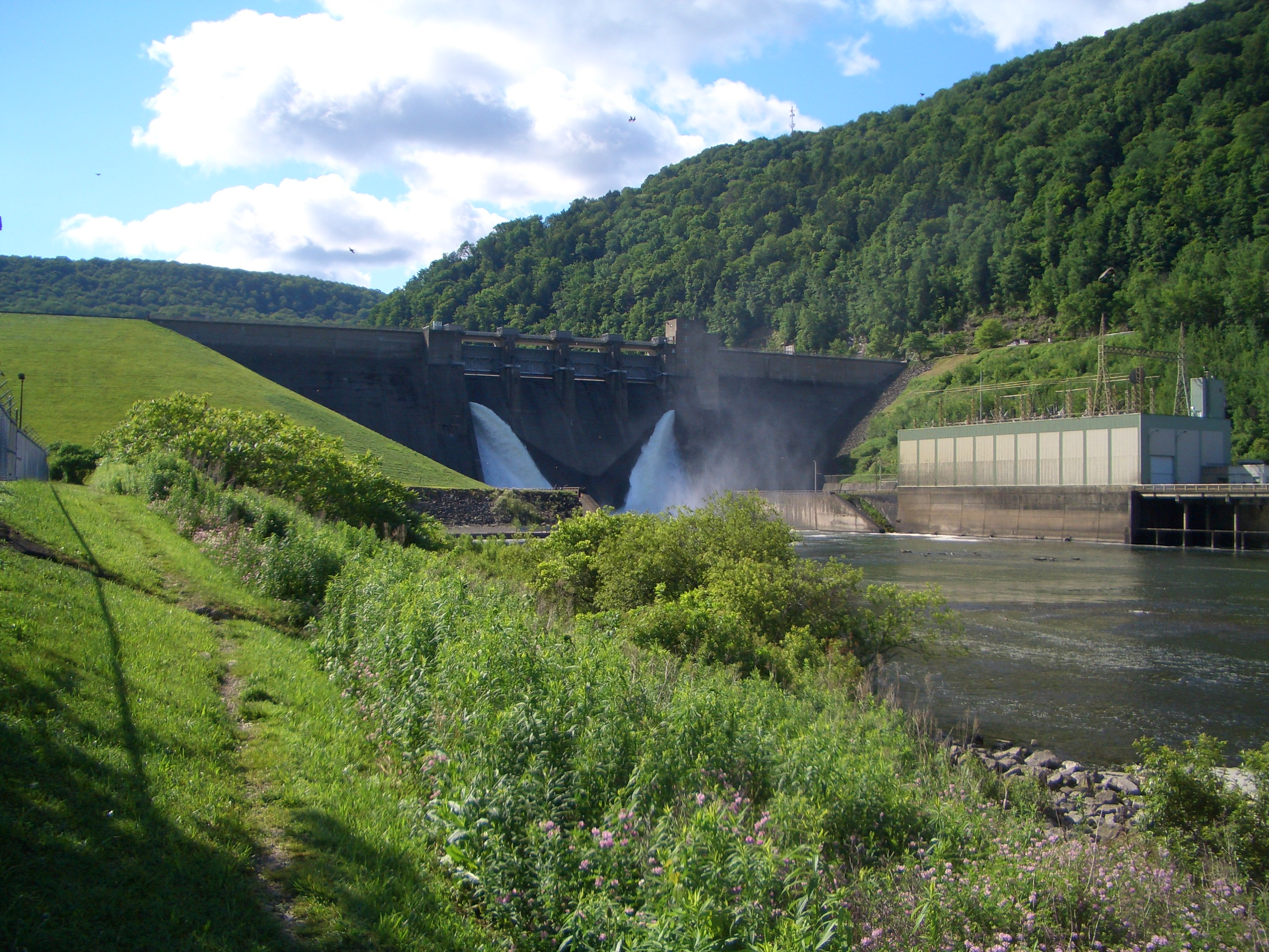 The American Recovery and Reinvestment Act of 2009 provided $1.13 million in funding to complete the repairs at Allegheny National Fish Hatchery. With additional funds from the Service’s Great Lakes Restoration Initiative and hatchery maintenance accounts, the Service in March 2010 awarded a $1.7 million general construction contract to William T. Spaeder Co., Inc., to carry out the project.